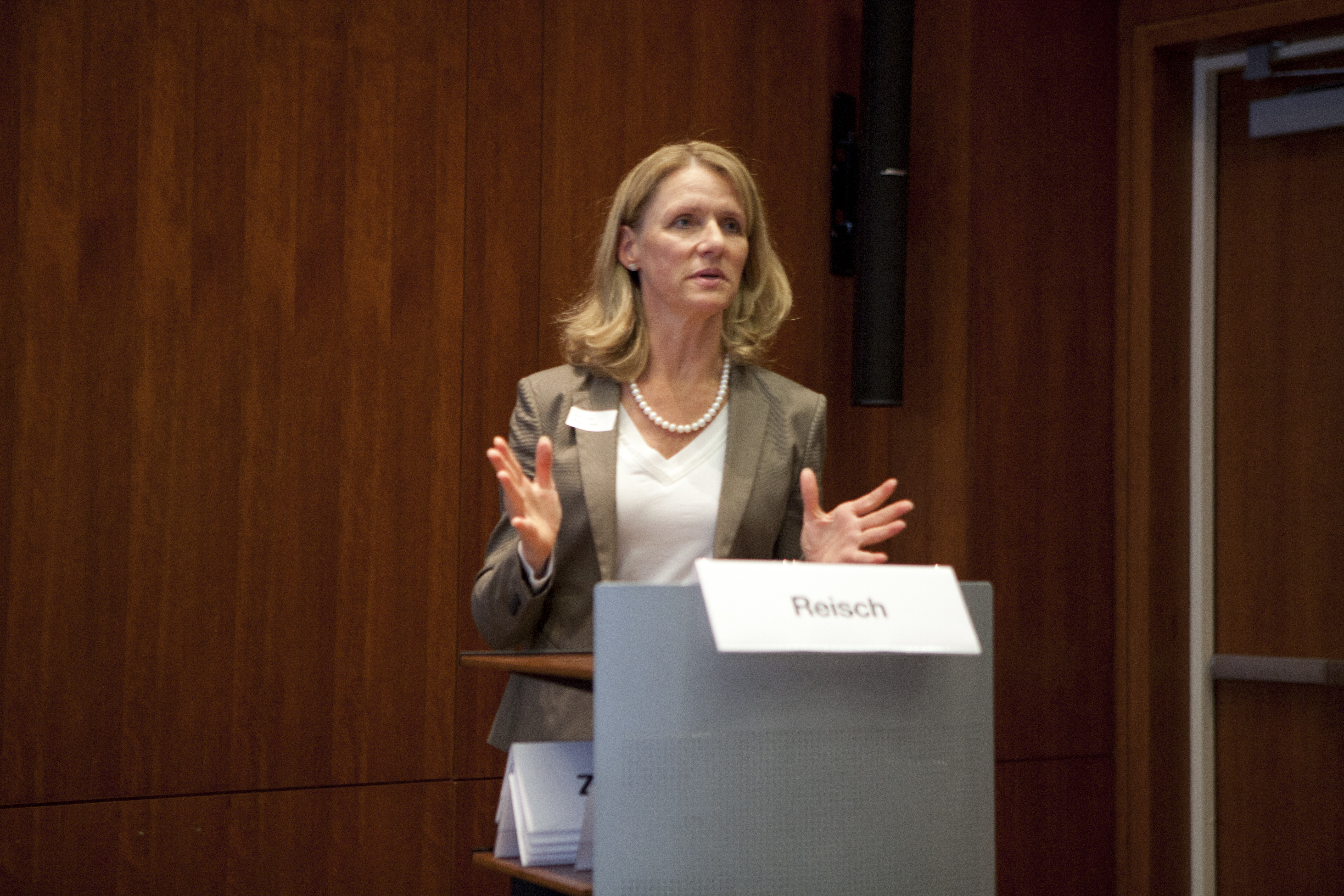 Lucia Reisch, Member Bioeconomy Council, Member Sustainability Council and Chair German Council on Consumer Affairs